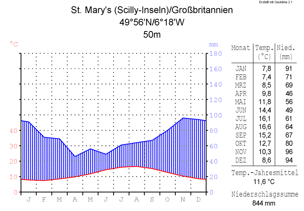 climate chart in the format by Walter and Lieth, metric, °Celsisus and millimeters, made with Geoklima 2.1